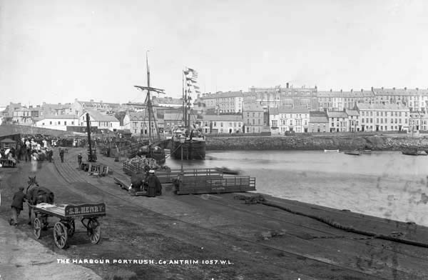 As file